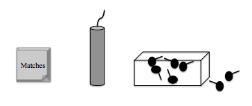 representation of the Duncker Candle problem created in powerpoint